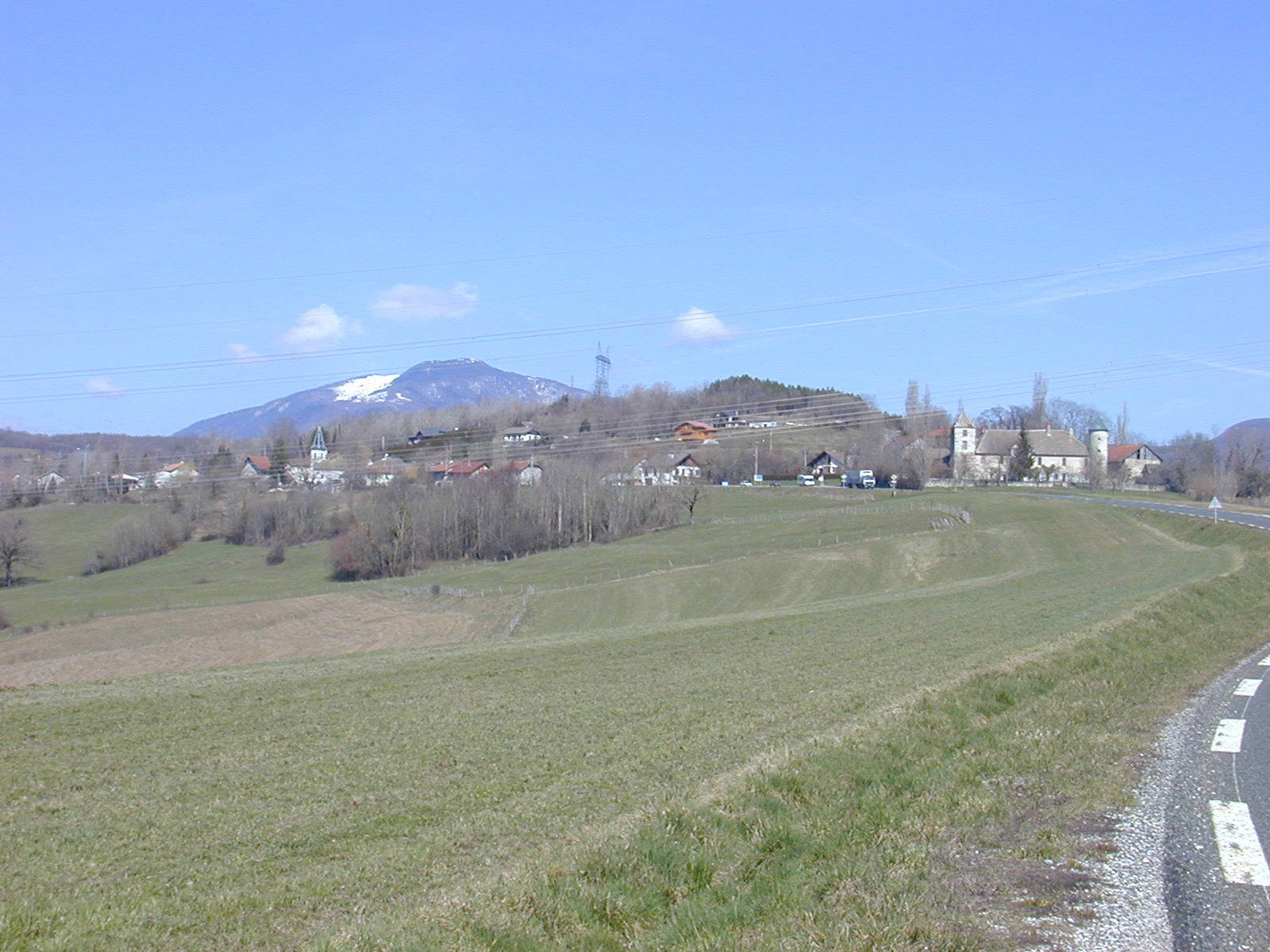 Village of Vanzy, Haute-Savoie, France.